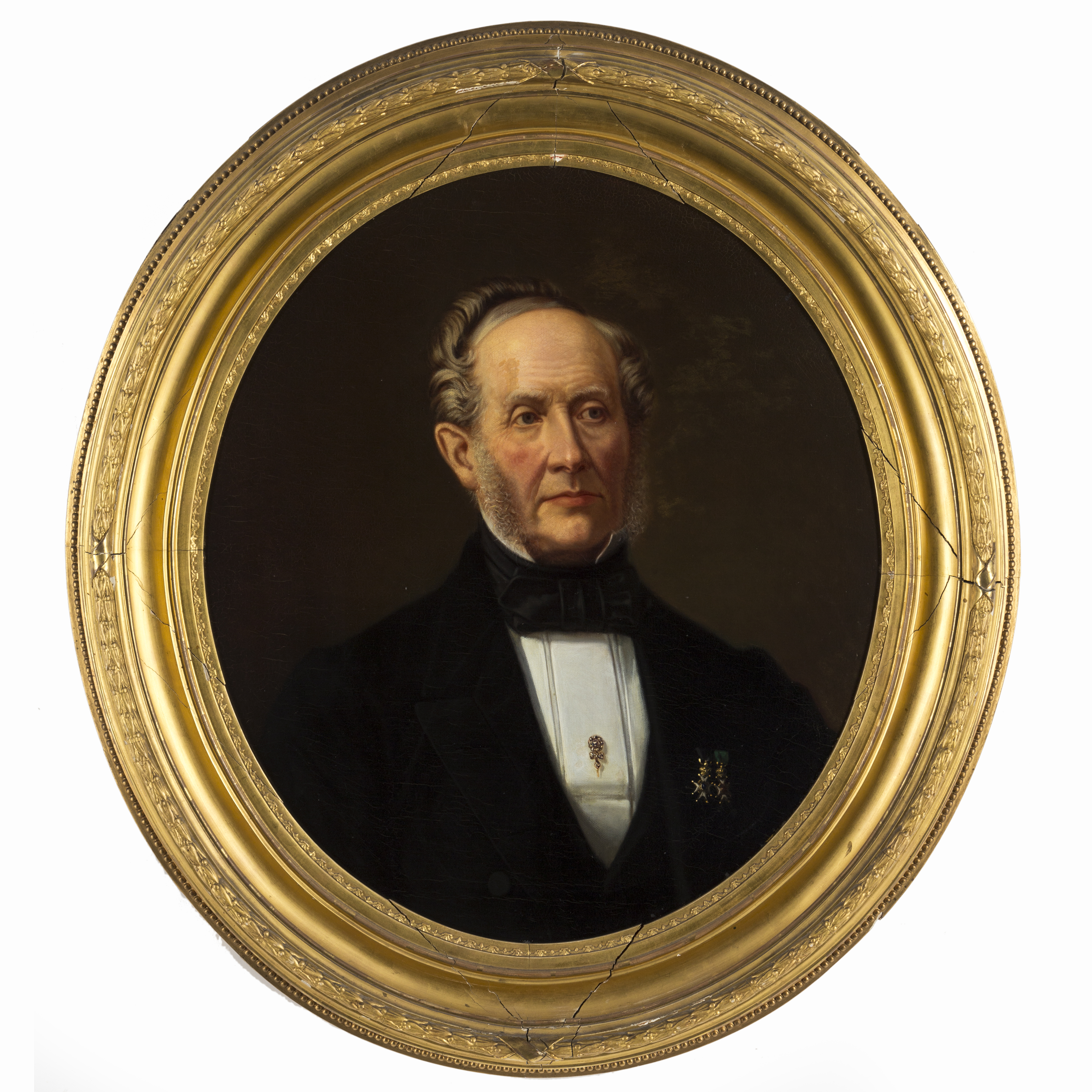 Porträtt av Eric Gustaf Lindström (1792-1865), med Vasaorden och Nordstjärneorden på bröstet. Utfört från fotografi i Göteborg år 1867 av Hilda Lindgren.